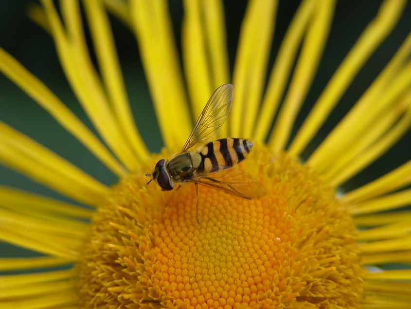 Mimicry_by_fly